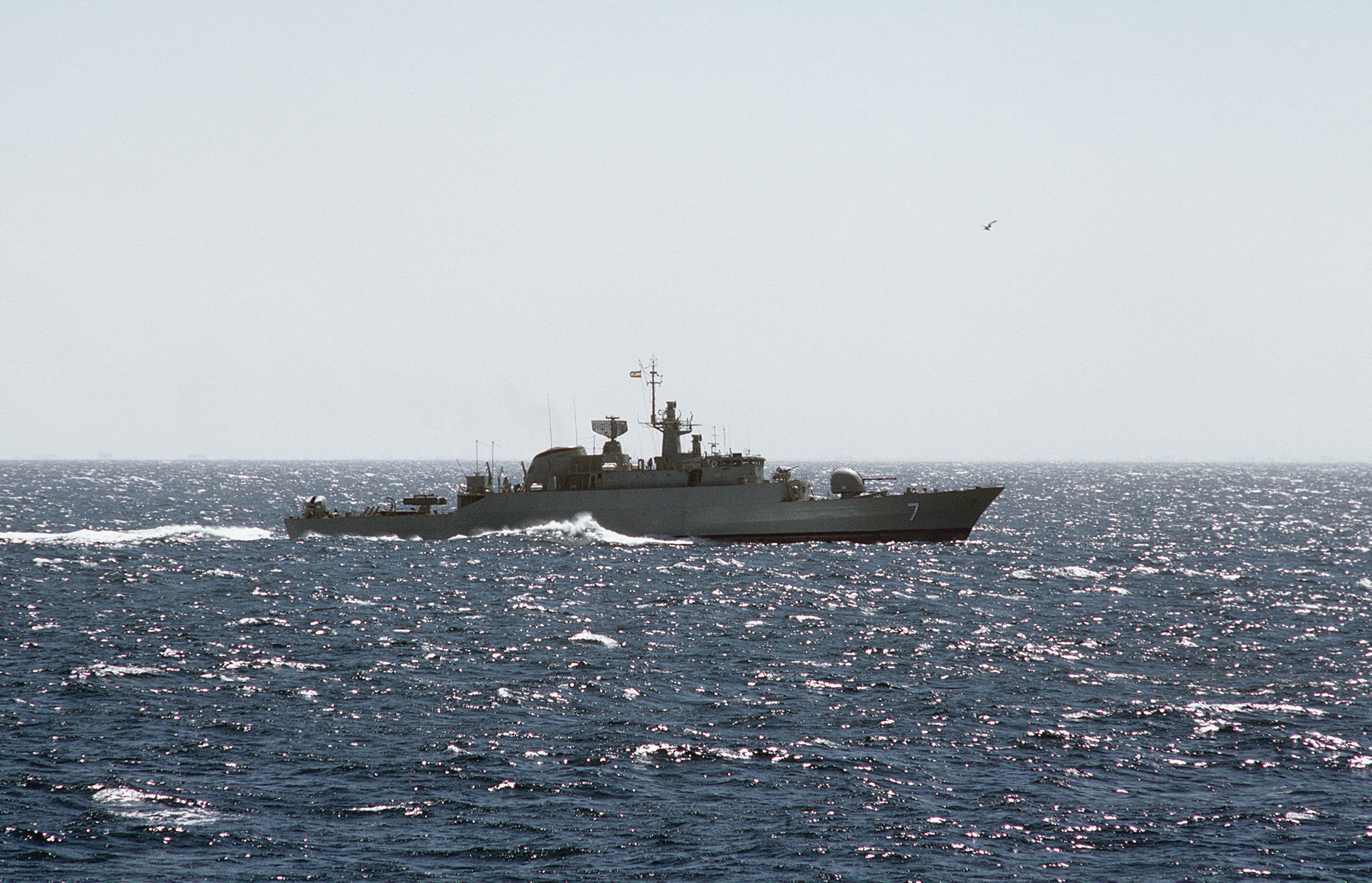 A starboard beam view of an Iranian Alvand class frigate underway. It should likely be hull number 71, 72, 73, or 74 but either the crew or the photographer may have obscured the trailing digit.